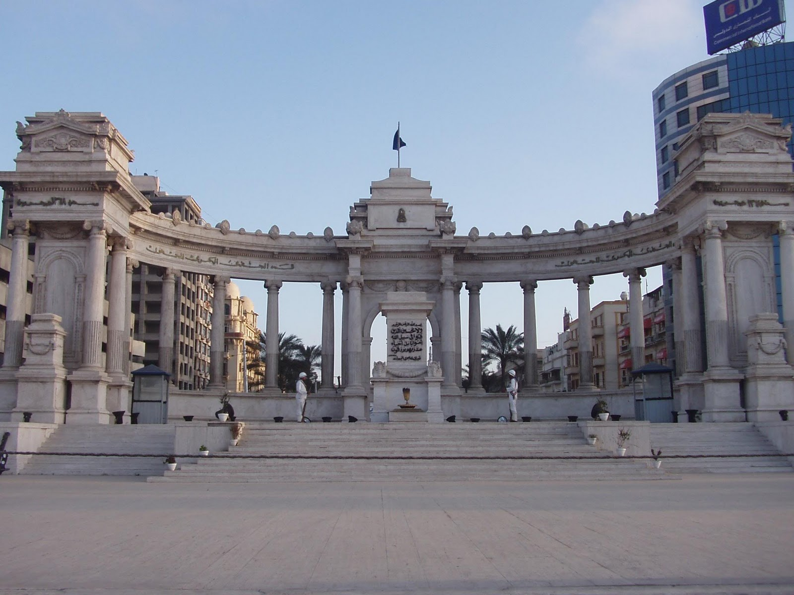 Navy Unknown Soldier Memorial as seen from the shore of Alexandria, Egypt